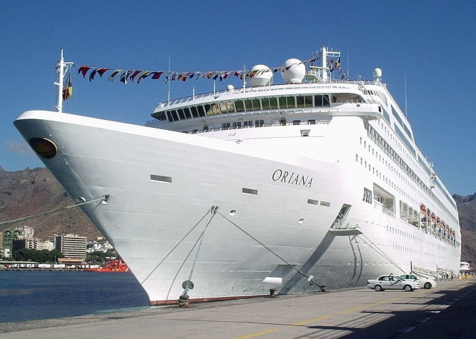 Photograph of P&O Cruises ship MV Oriana. Taken 2003 in Santa Cruz de Tenerife